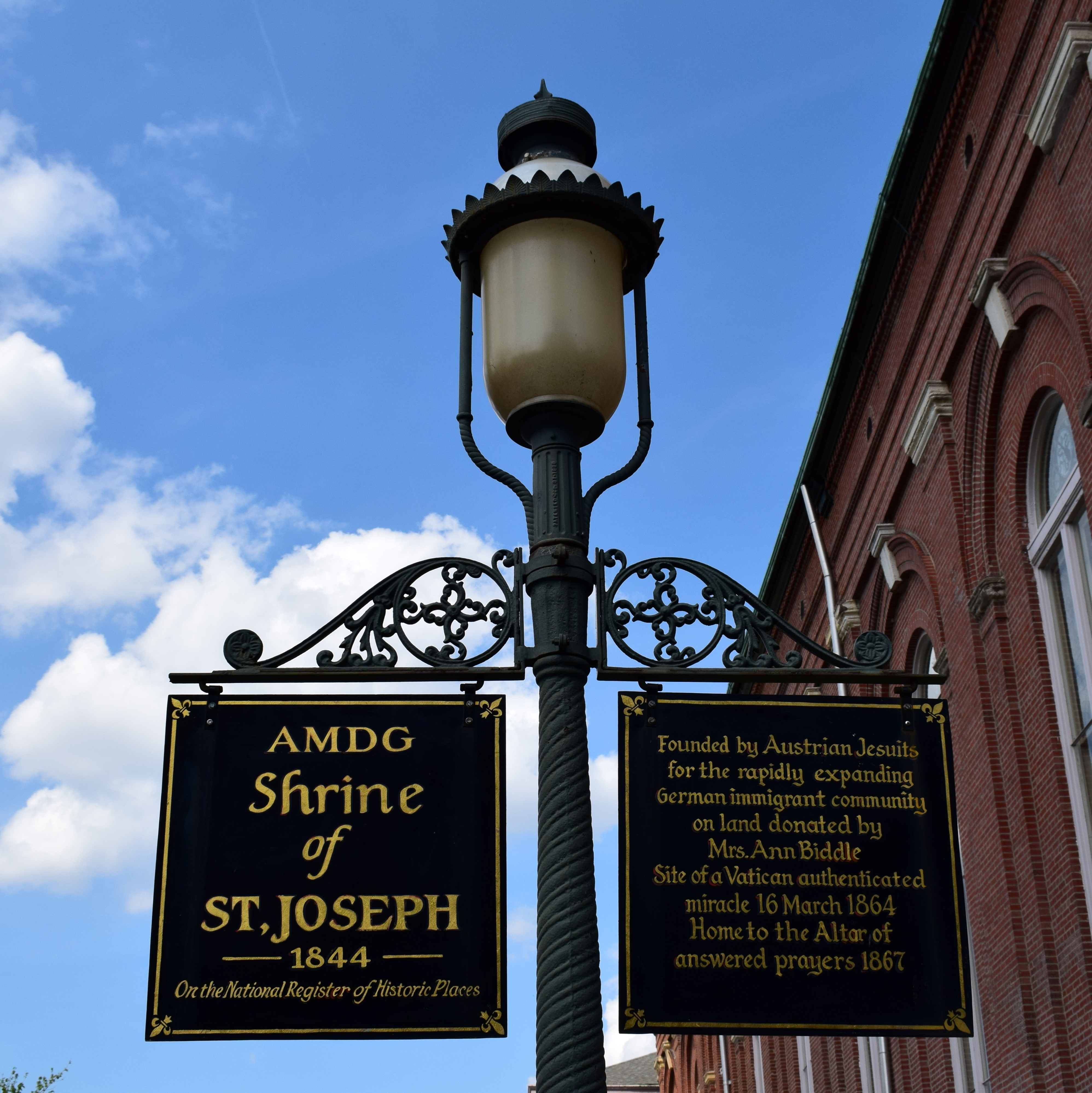 Shrine of Saint Joseph Church (St. Louis, Missouri) - lamppost